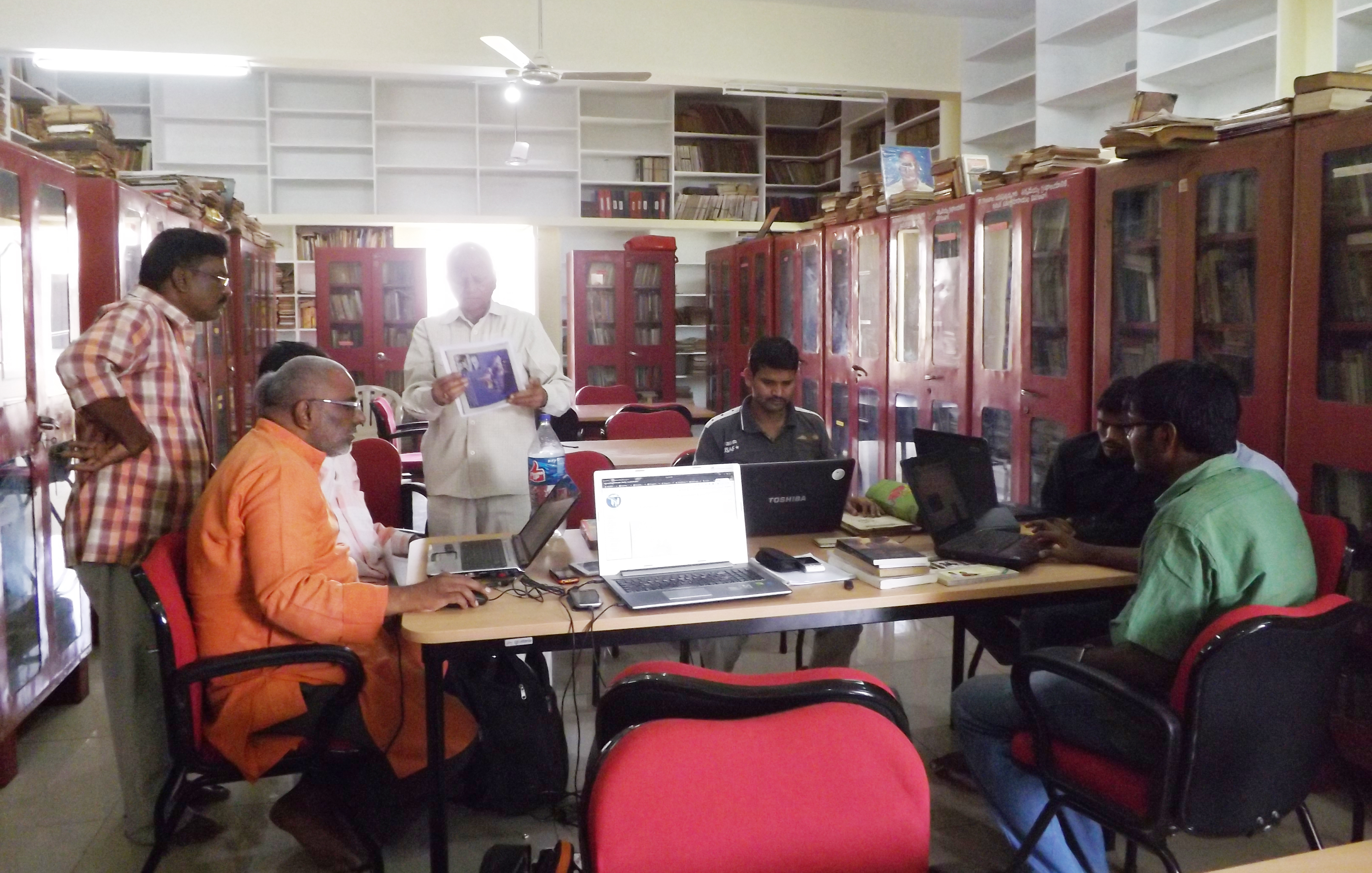 A Training Session With Staff of Annamayya Adhyatmika Librery